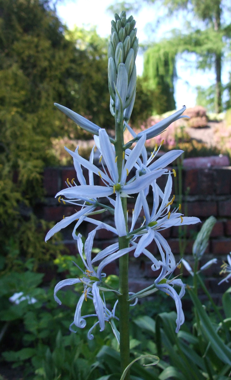 Calycanthus floridus